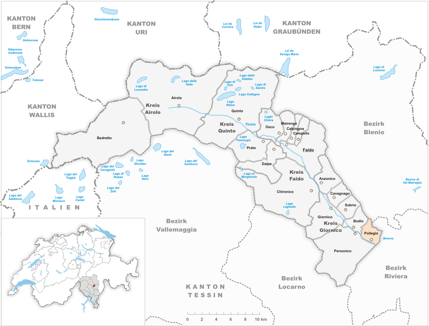 Municipality Pollegio